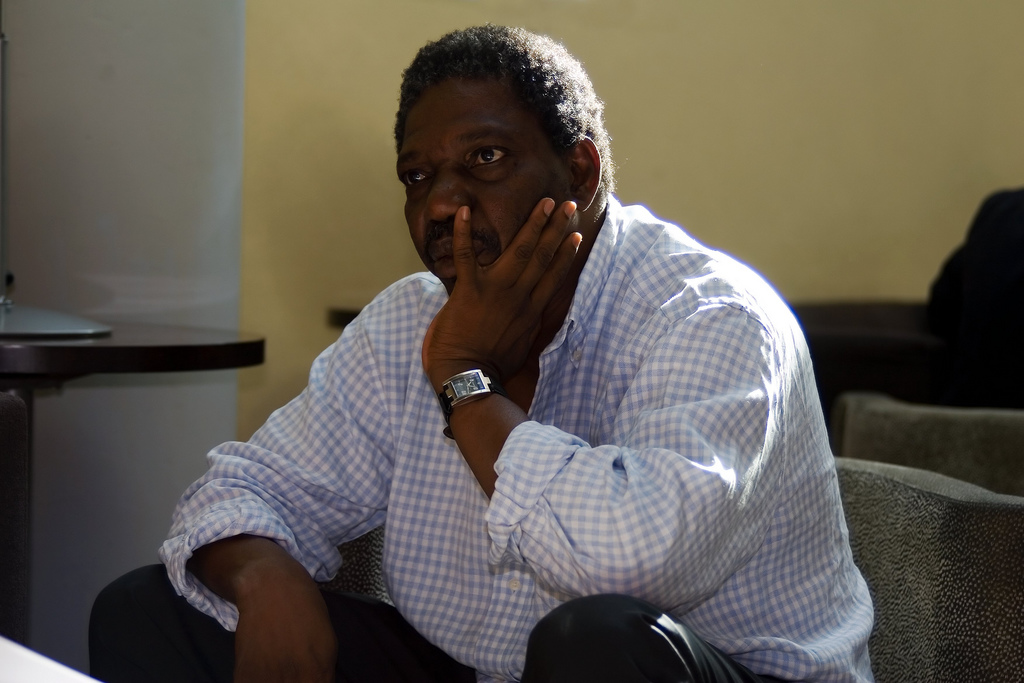 1SUR - 2007 Idrissa Ouédraogo, filmmaker from Burkina Faso, member of the jury of the Cines del Sur 2007